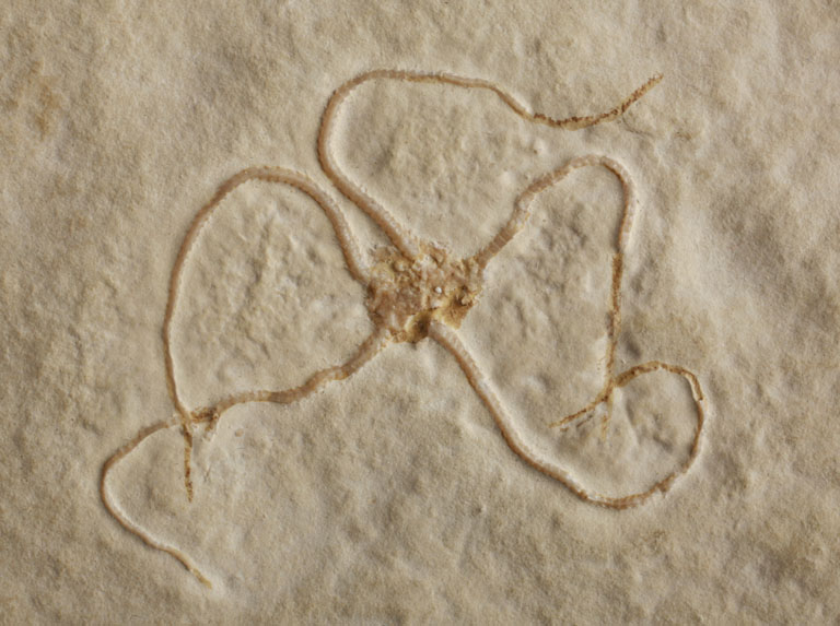 Jurassic brittle stars in the permanent collection of The Children’s Museum of Indianapolis.